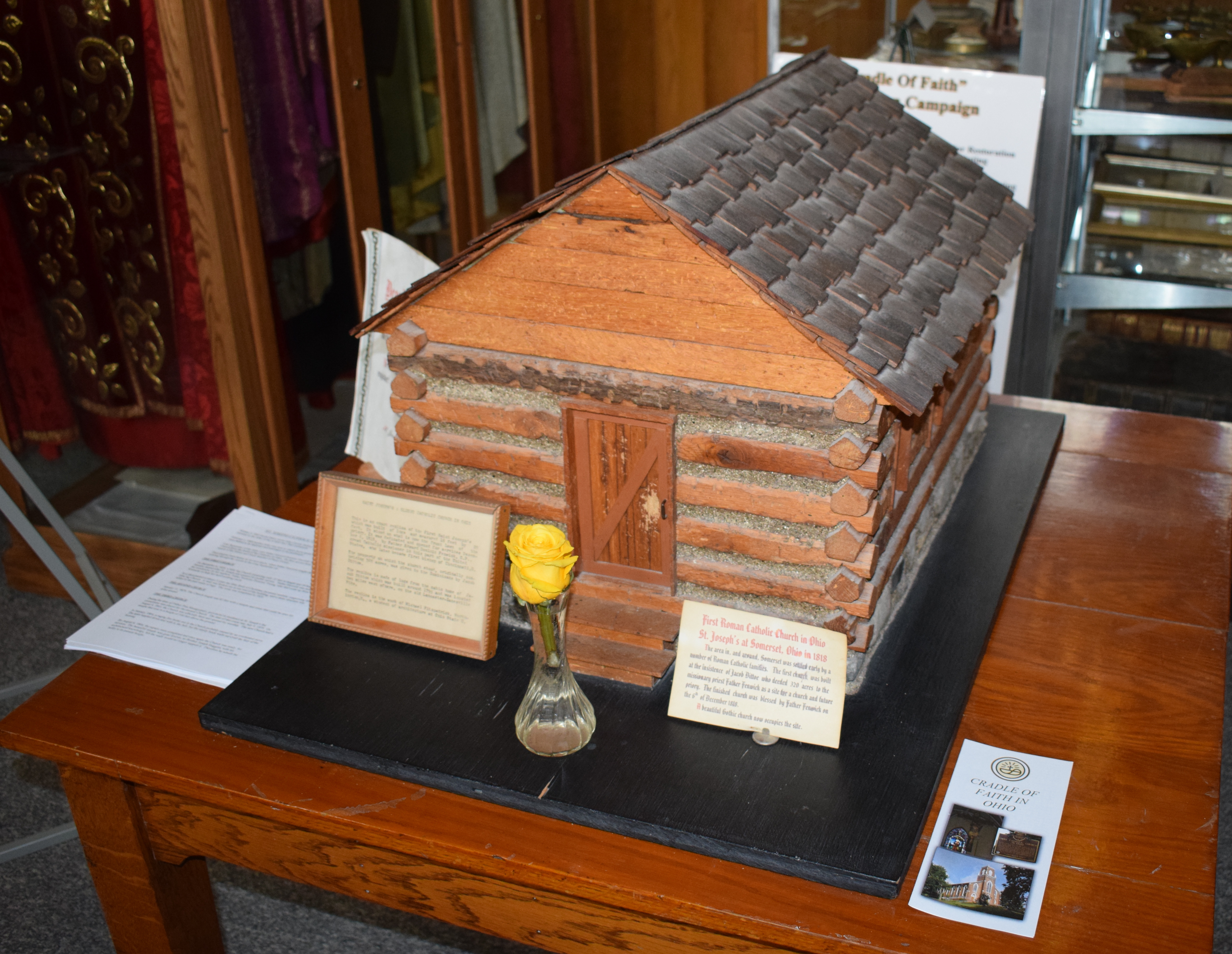 Saint Joseph Church (Somerset, Ohio) - model of the original church